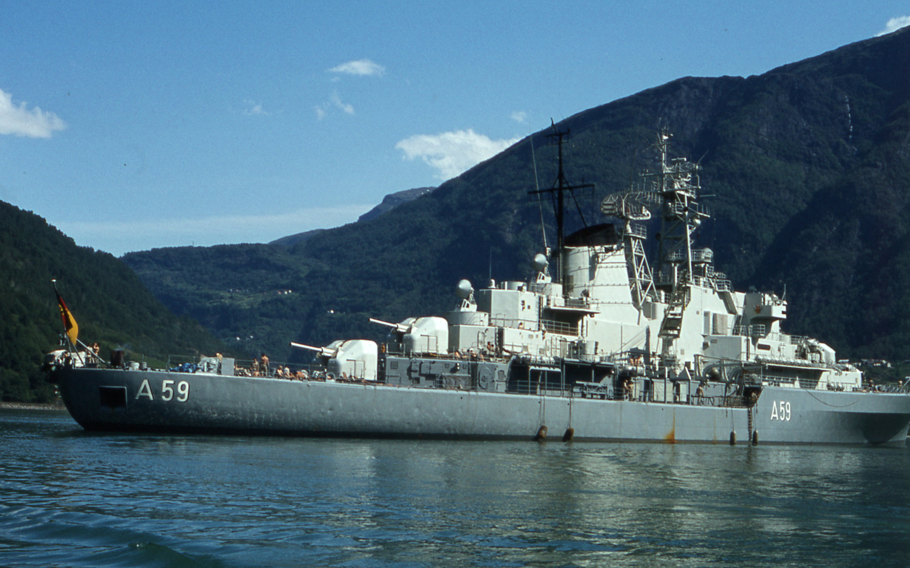 FGS Deutschland (A59) at anchor in Lustrafjordfjord in June 1980